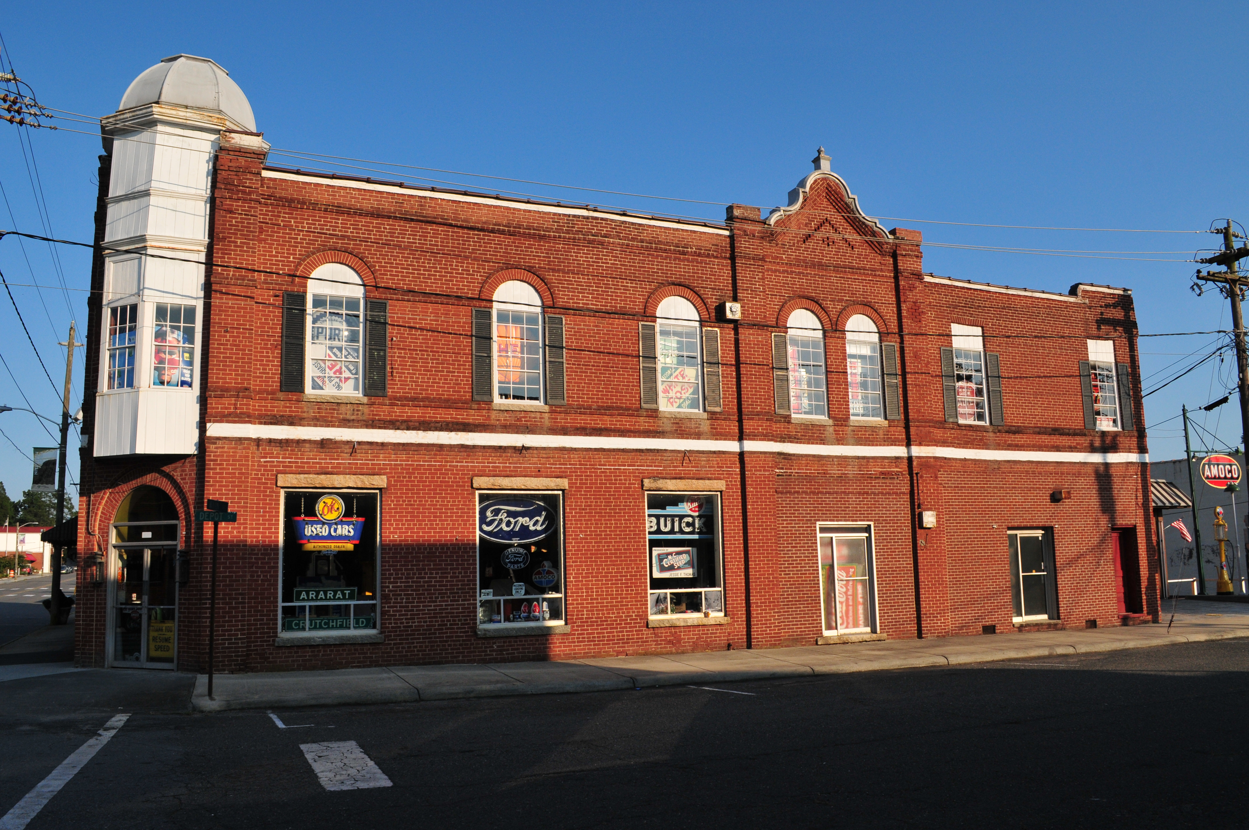 Front corner view of the former Bank of Pilot Mountain